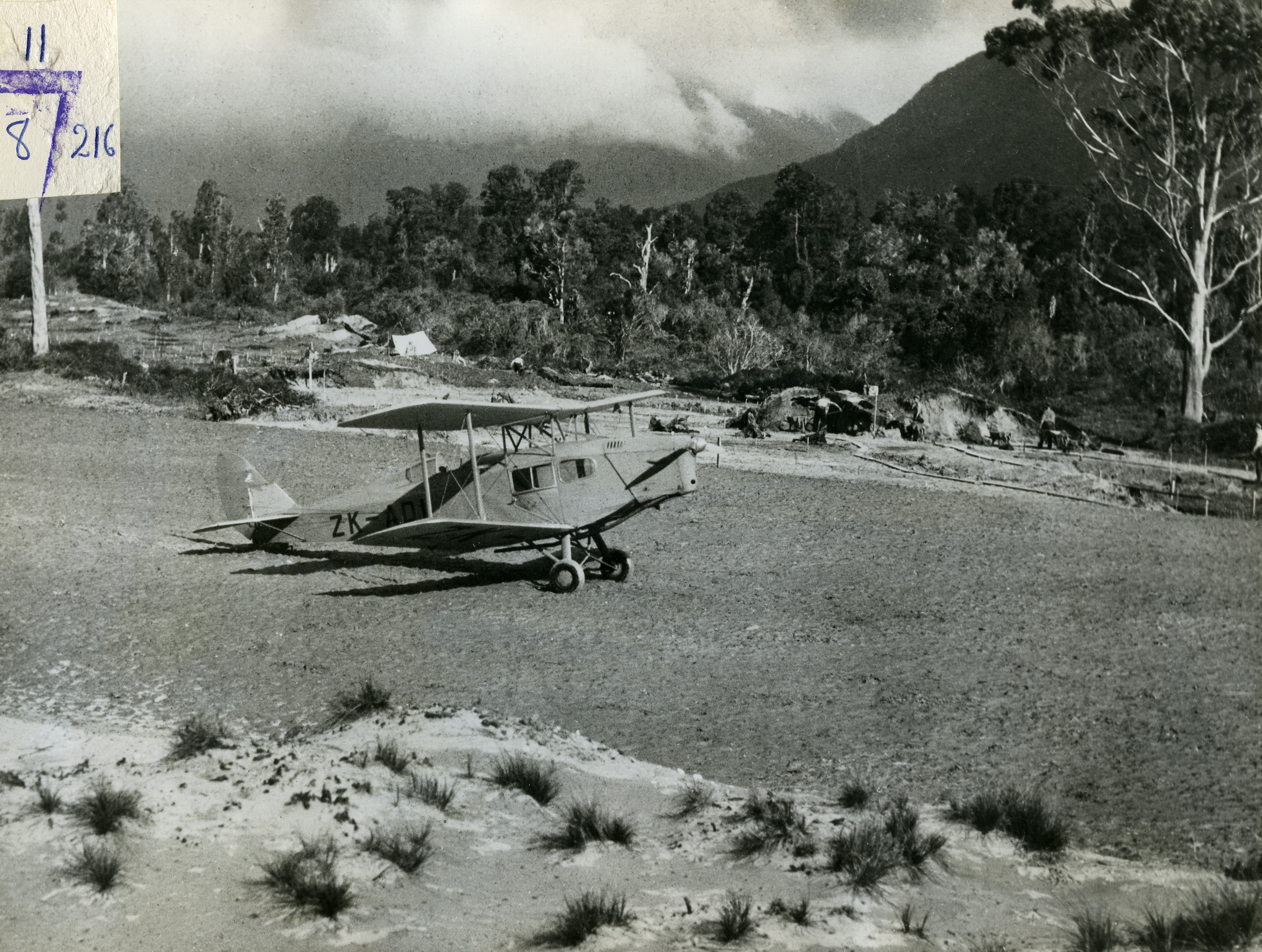 Air Travel (NZ) Ltd was founded by Bert Mercer in 1934 and was the first airline in New Zealand to fly scheduled air services. The company flew a number of De Havilland biplane aircrafts, which serviced areas on the West Coast. Air Travel (NZ) Ltd's first scheduled flight took place on December 18, 1934, from Hokitika to South Westland, and occurred shortly after the airline began delivering mail. In 1945, the company came under government control but continued until 1967, when the national air carrier NAC began flights into Hokitika. Over the 33 years that Air Travel (NZ) Ltd was in service they operated a number of De Havilland biplanes, including three Fox Moths, two Dragonflies, a Dragon, and a Dragon Rapide, out of Hokitika's Southside Airfield, located on the south side of the Hokitika River. The first flight undertaken by Air Travel was in the De Havilland Fox Moth ZK-ADI. The above image is of the De Havilland Fox Moth ZK-ADI on the West Coast circa 1940’s, and is from Archives New Zealand’s former Post and Telegraph/Telecom Museum Holdings collection. Archives New Zealand Reference: AAME W5603 11/8/216 For updates on our On This Day series and news from Archives New Zealand, follow us on Twitter Material from Archives New Zealand